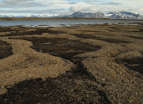 Glacier was here on Spitsbergen, with Prins Karls Forland in the background